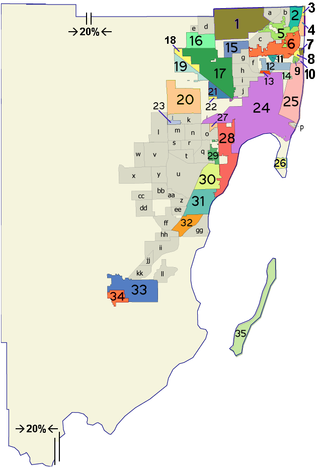 Compressed map of Miami-Dade County in Florida (USA), showing city limits of cities/towns in the county, labeled with numbers on earth-tone colors, letters on gray areas. The map width is compressed 20% in the vacant space, with 40% larger labels to be more readable at thumbnail sizes. See below: Map labels. Map was created using coordinate data from US Census Bureau, modified in accordance with incorporation data from 2000-2005 in Adobe Illustrator, and compressed/magnified using MS Paint.